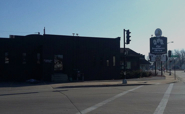 The Brothers Three restaurant at 1302 Marinette Avenue in Marinette, Wisconsin